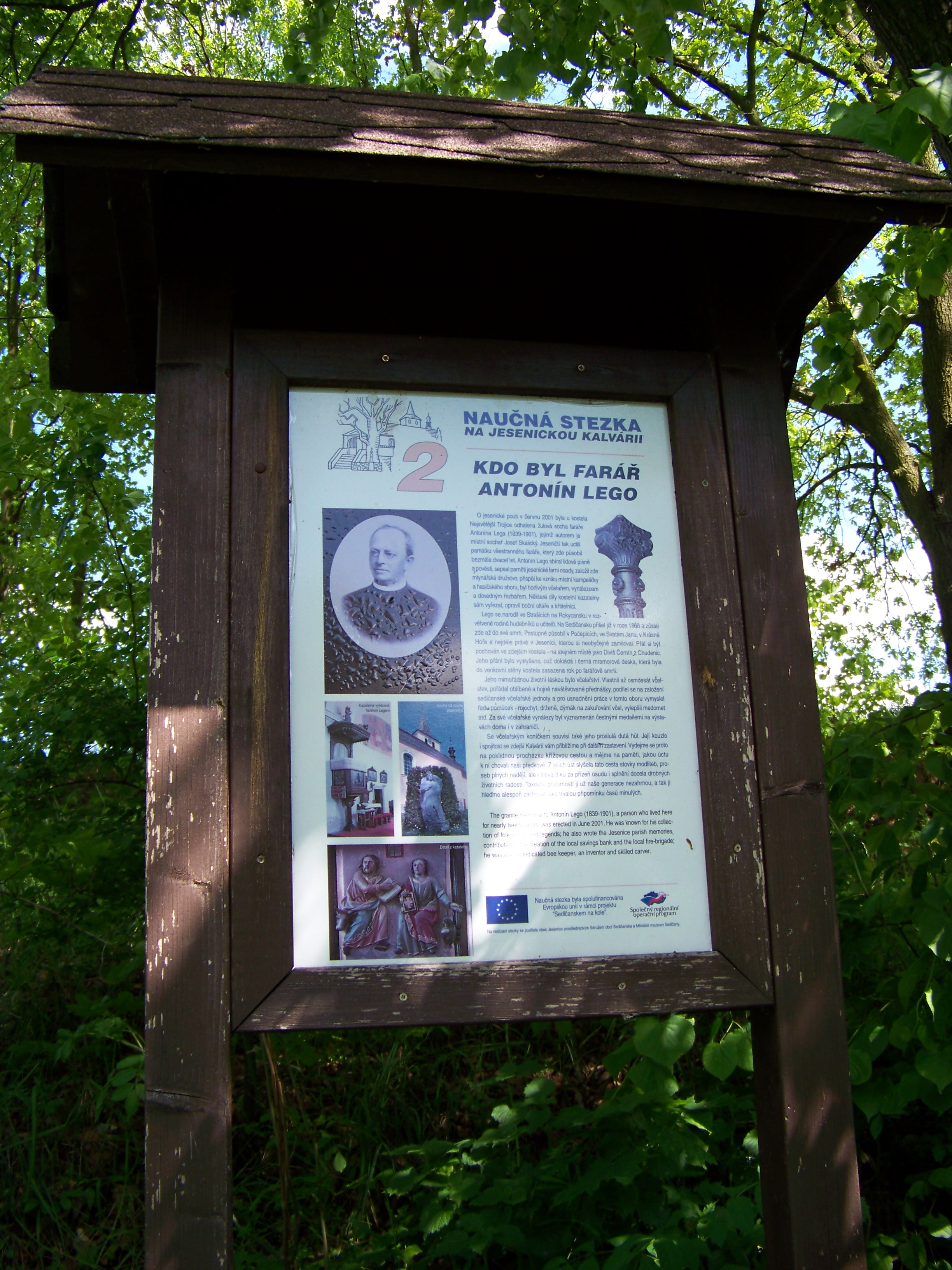 Jesenice, Příbram District, Central Bohemian Region, the Czech Republic. Educational trail about the Stations of the Cross. Who was the parish priest Antonín Lego.